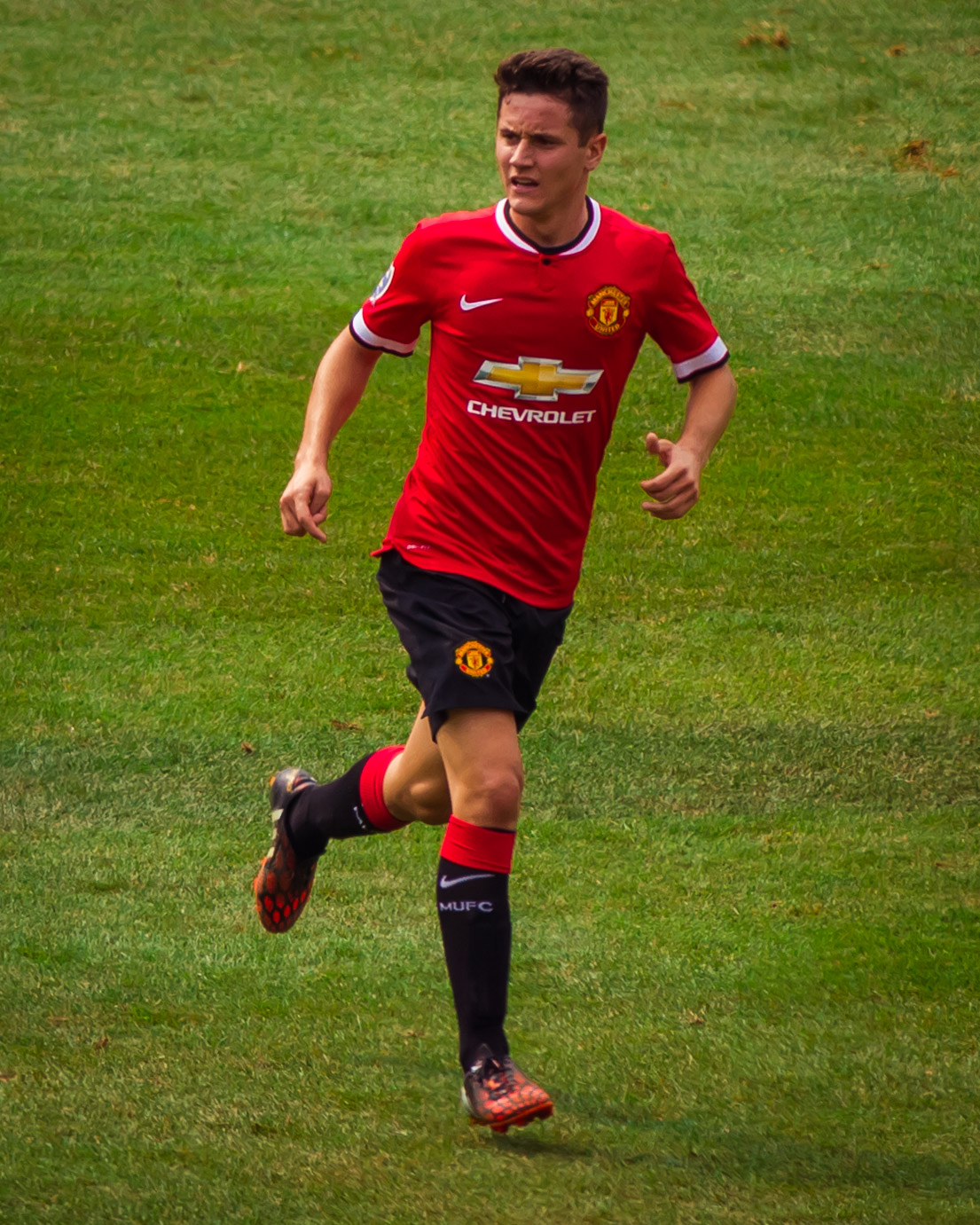 Ander Herrera playing for Manchester United in a friendly match against Real Madrid on 2 August 2014.